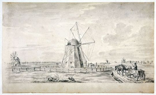 Østre Farimagsgade in Copenhagen, Denmark. Drawing by Østre Farimagsgade, ca. 1825, c. 1825. Seen in the picture are the two windmills Stjernemølle and Glacismøllen